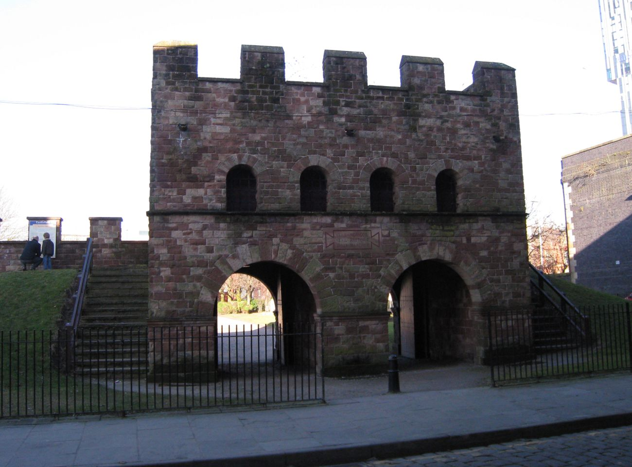 Reconstructed gateway of the Roman fort of Mamucium